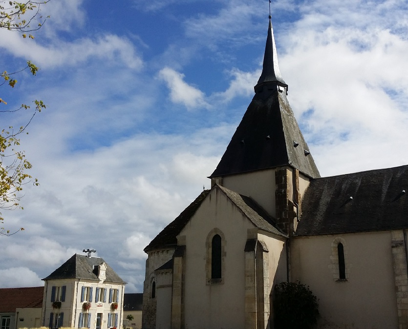 church of farges en septaine